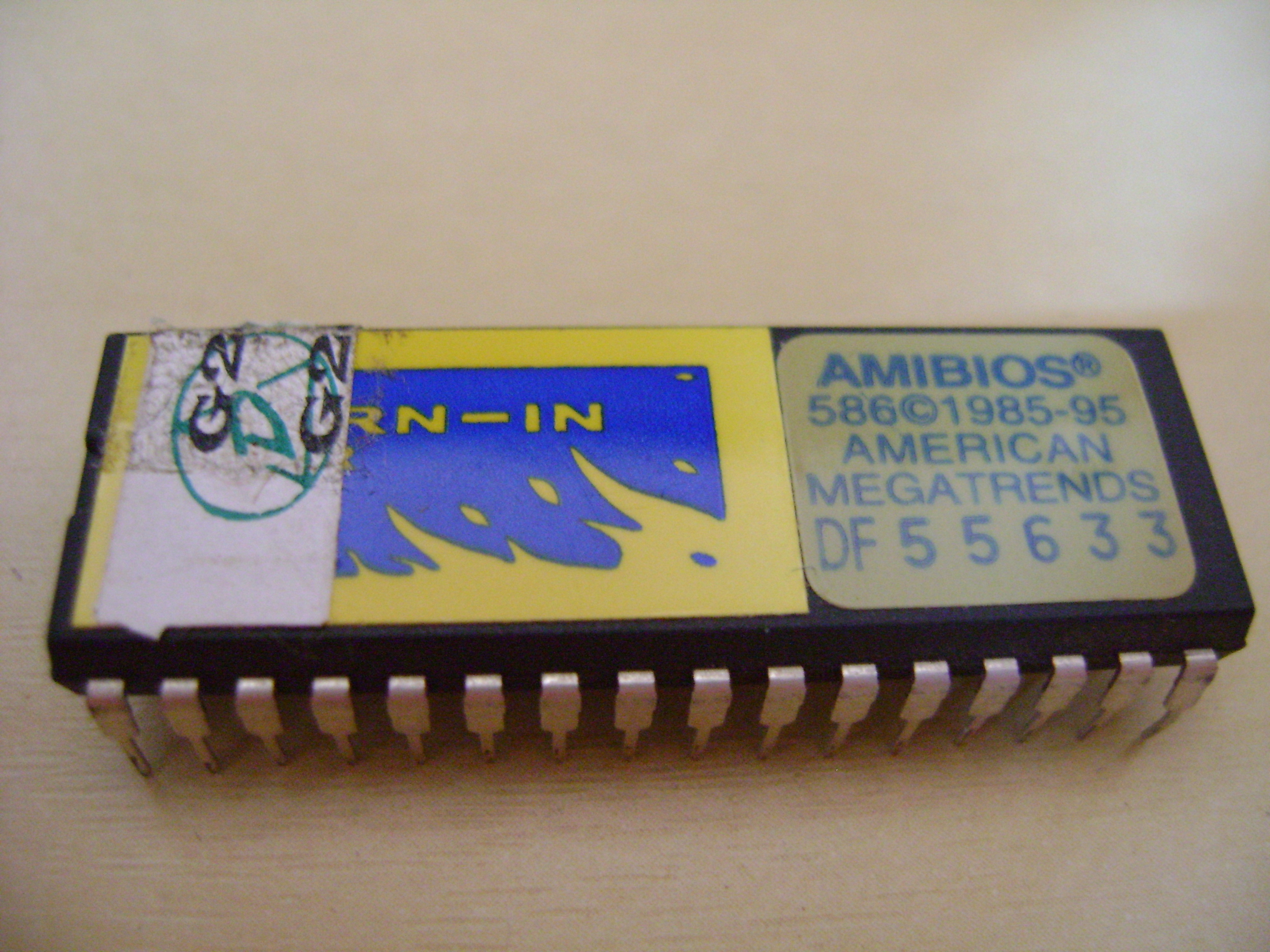 AMIBIOS Pentium MMX